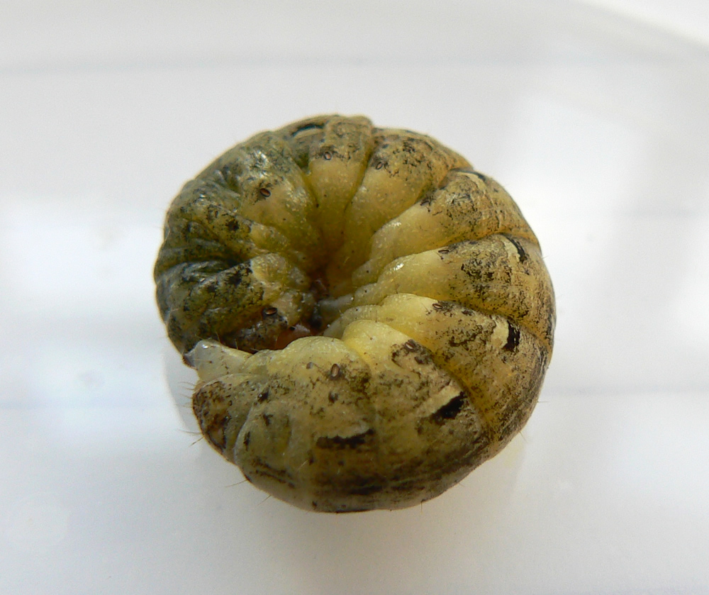 Taken in romford, essex More on: UK wildlife blog